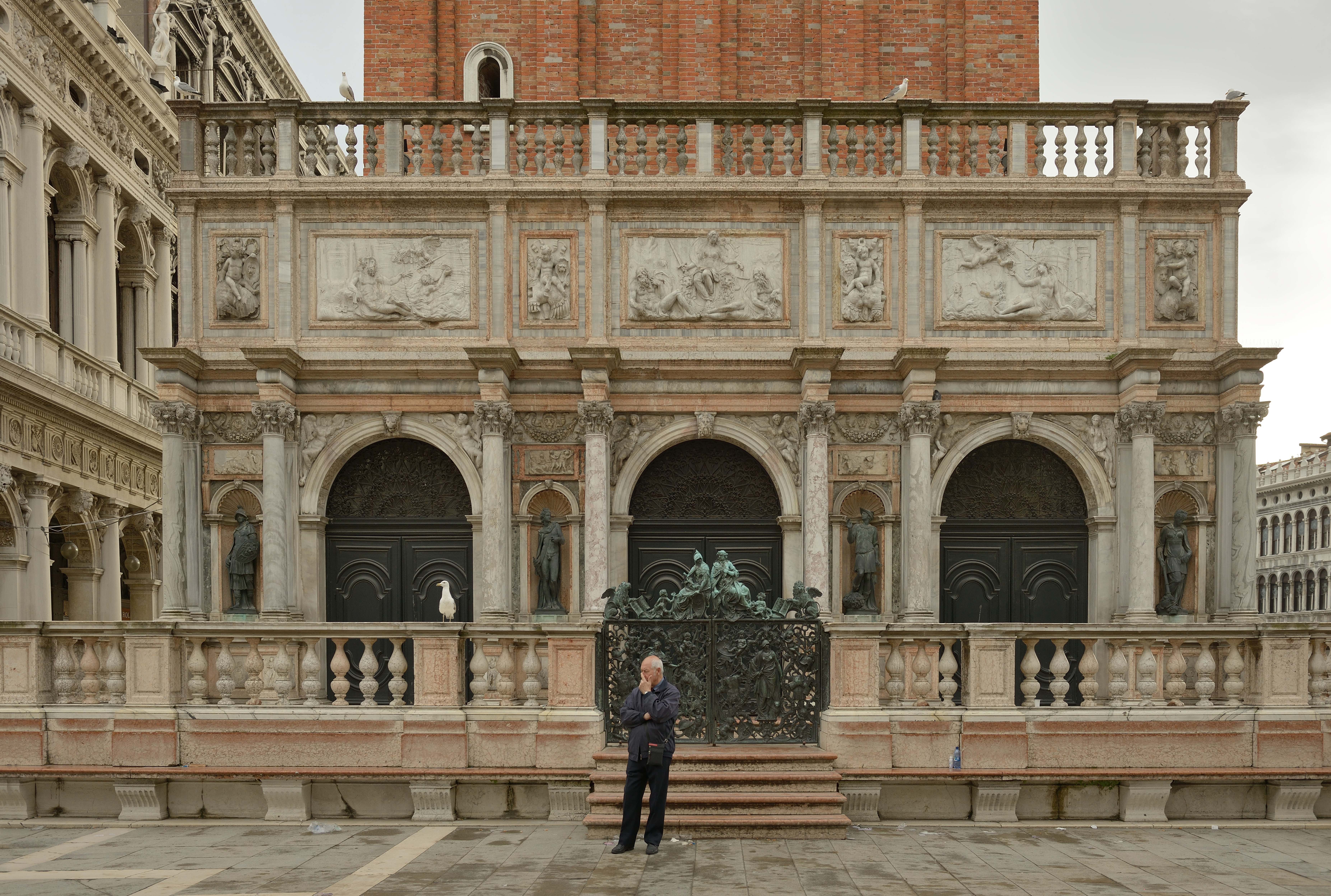 The Loggetta del Sansovino by Jacopo Sansovino, under the Campanile di San Marco in Venice